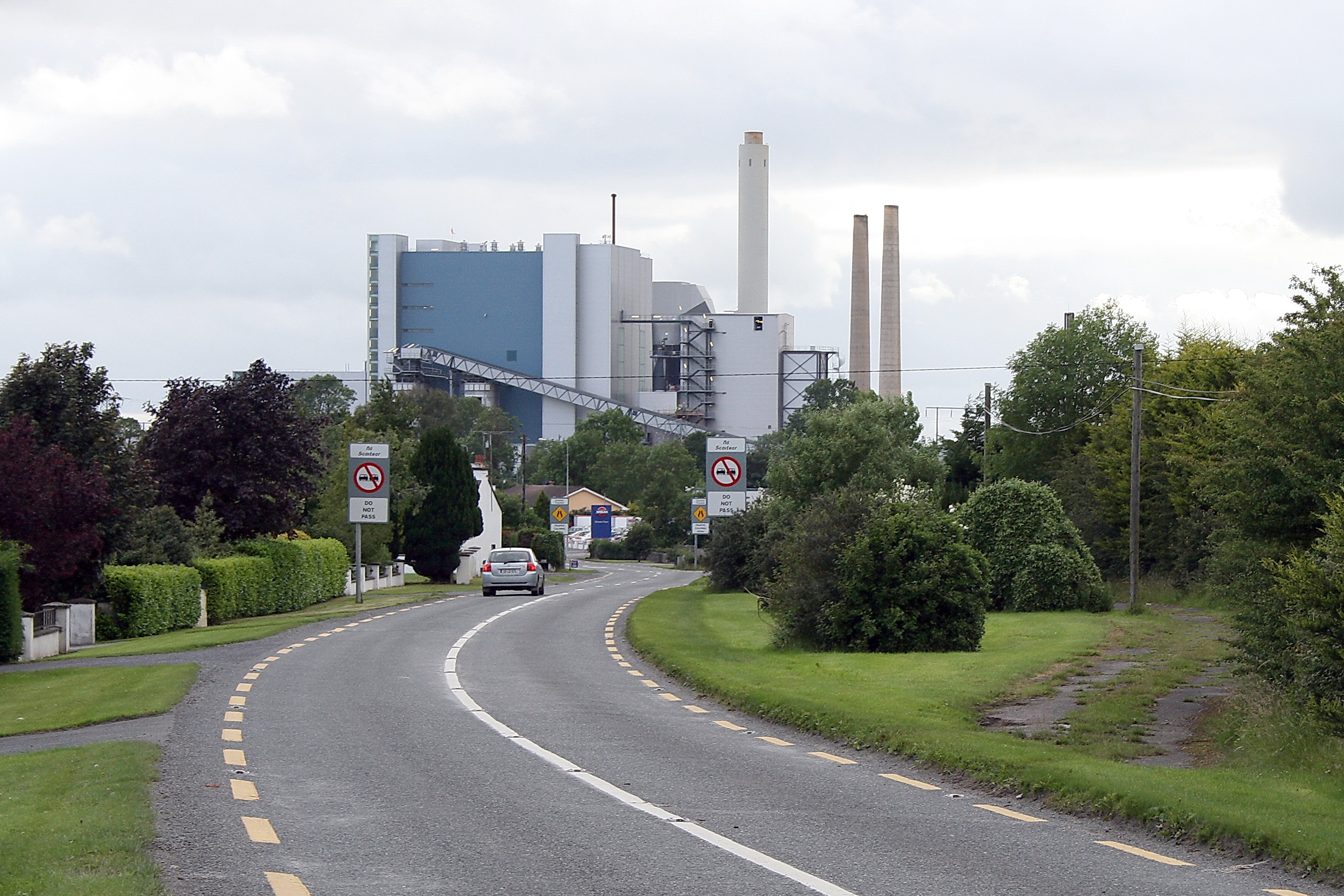 Lanesborough, County Longford, Ireland